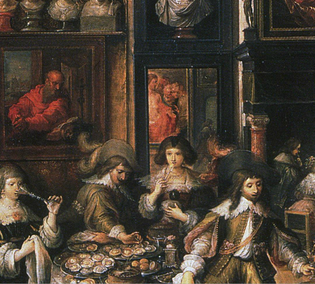 Supper at the House of Burgomaster Rockox - Detail showing Rubens' Incredulity of Thomas in the corridor.